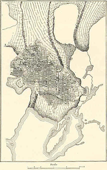 From the original plate (p. 10): "The Columbia Glacier, Prince William Sound, with the City of Washington Drawn to the Same Scale for Purposes of Comparison (see pp. 30-33)."